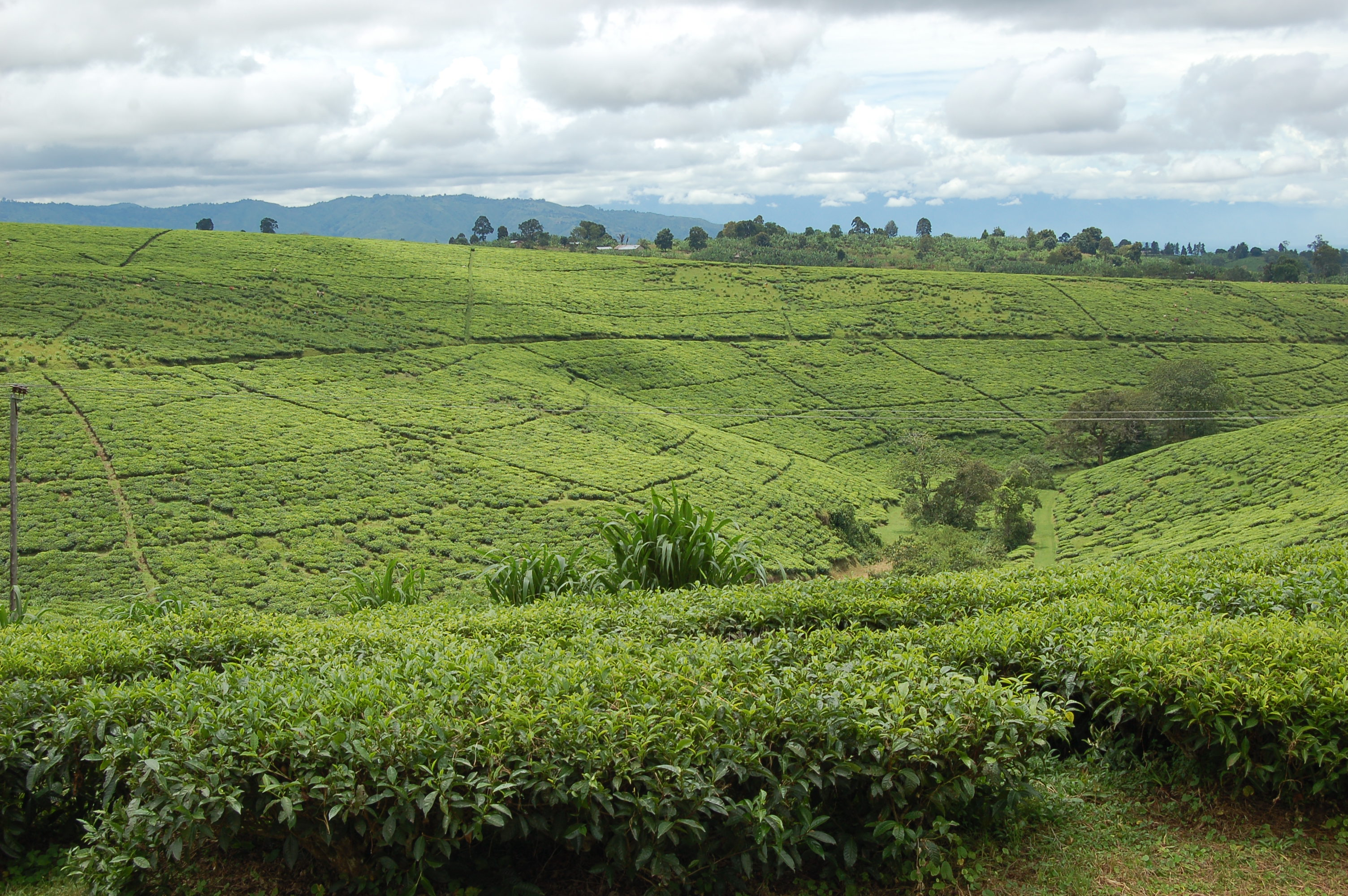 Tea fields at Tukuyu town, elevation of around 5,000 ft (1,500 m) in the highland Rungwe District of Southern Tanzania.